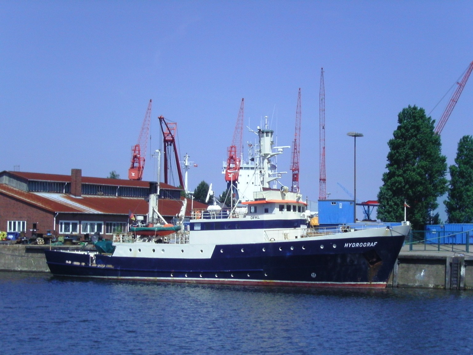 The Resarch-Supply-Dive Ship Hydrograf in the port of Cuxhaven, Germany